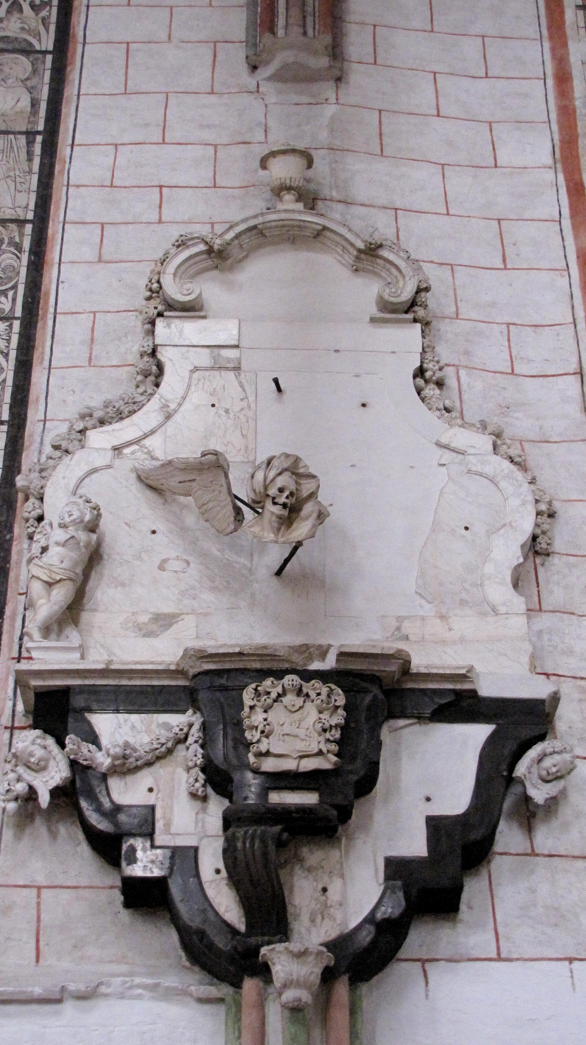 Epitaph for Adolf Brüning by Thomas Quellinus in St. MArien, Lübeck; ruined since 1942